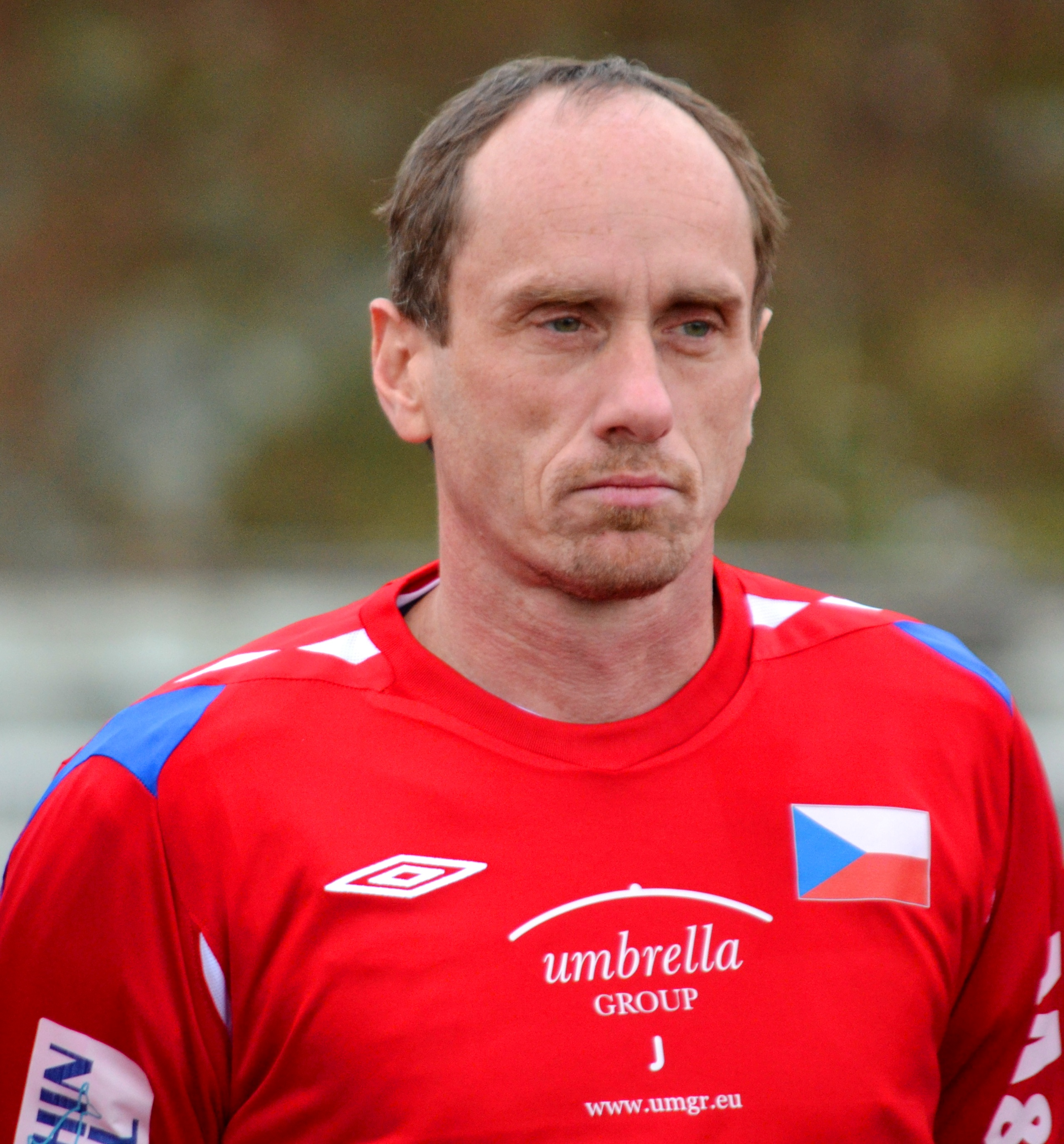 Radovan Hromádko, Czech footballer and coach